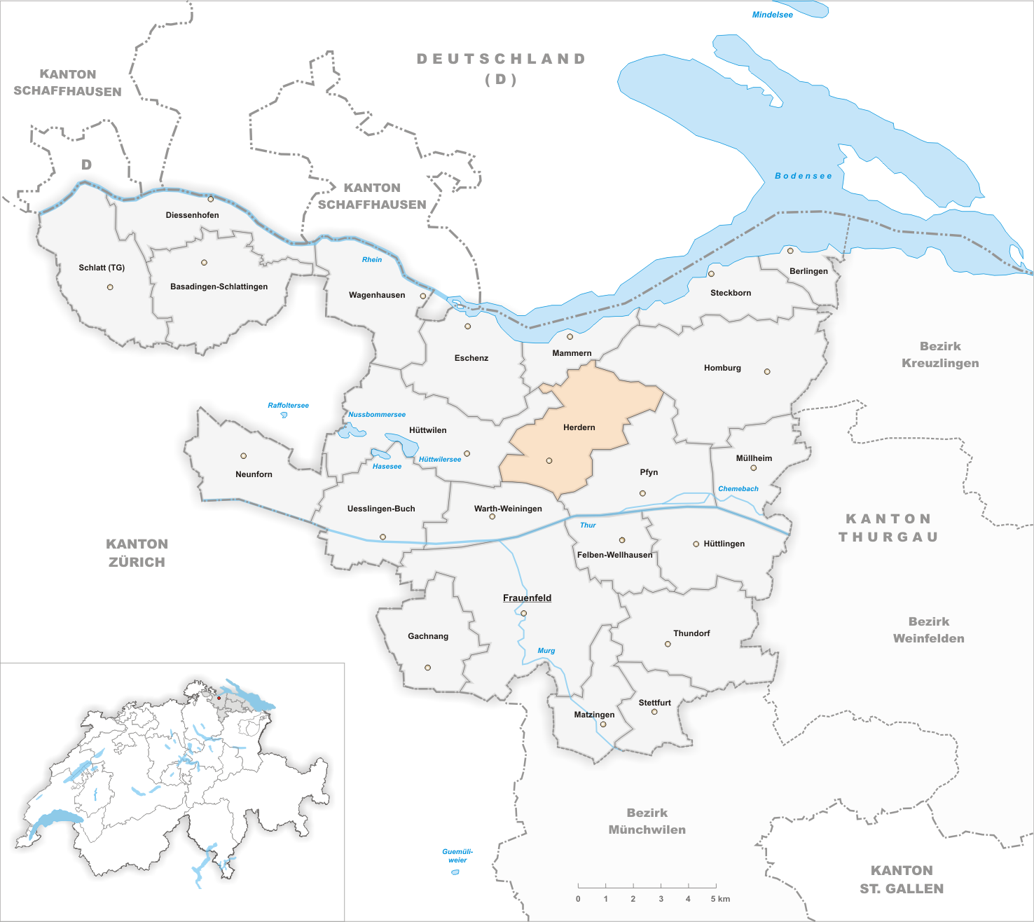 Municipality Herdern